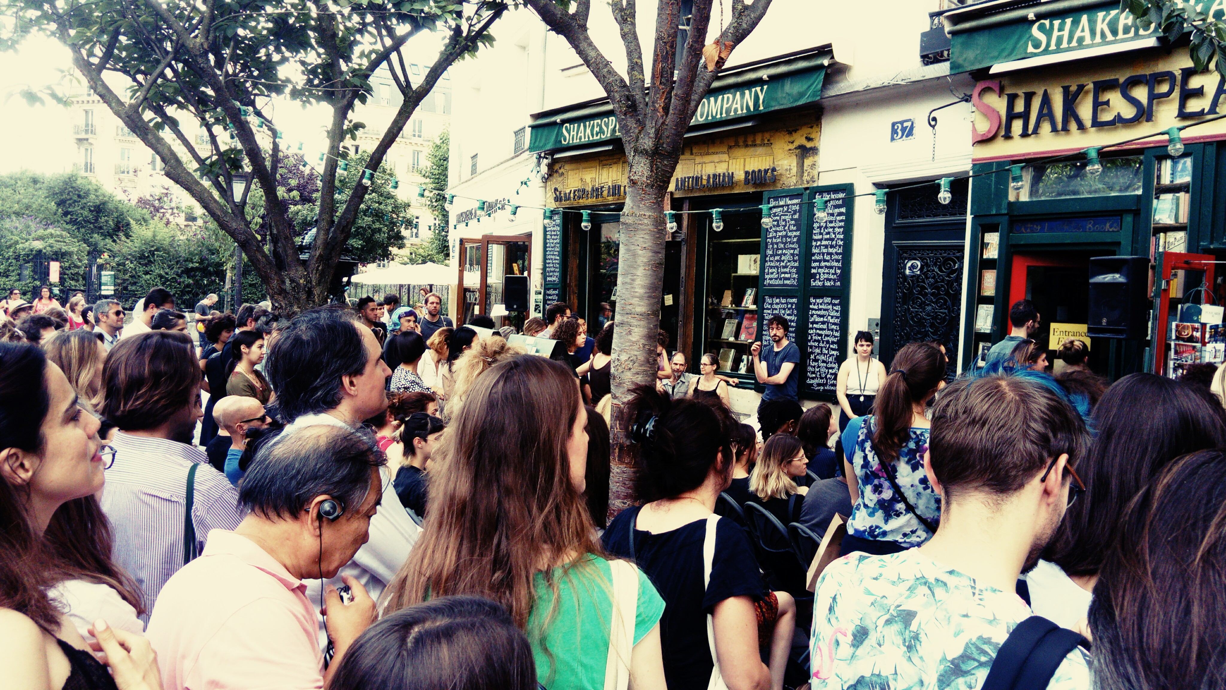 People crowding in front of the Parisian bookshop Shakespeare & Co, to listen to Kate Tempest's reading of one of her poems, on July 19th 2018.